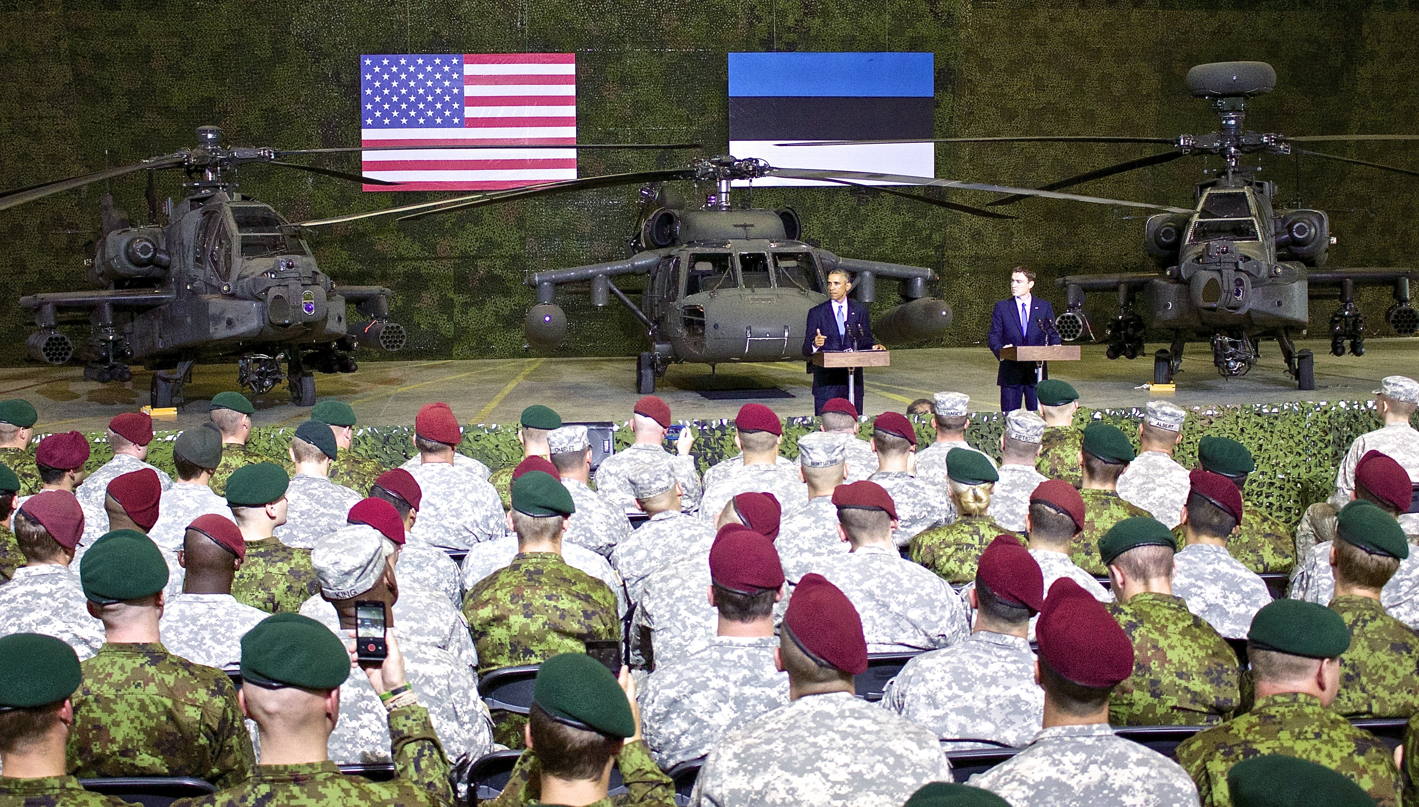 U.S. President Barack Obama, at left lectern, and Estonian Prime Minister Taavi Rõivas, at right lectern, speak with U.S. Army paratroopers assigned to the 173rd Airborne Brigade Combat Team and Estonian soldiers with the Single Scouts Battalion during a troop event for Atlantic Resolve 2014 in Tallinn, Estonia, Sept. 3, 2014. Europe-based U.S. Army units were deployed to Poland, Lithuania, Estonia and Latvia to conduct bilateral military exercises and reinforce NATO security commitments to the host nations.